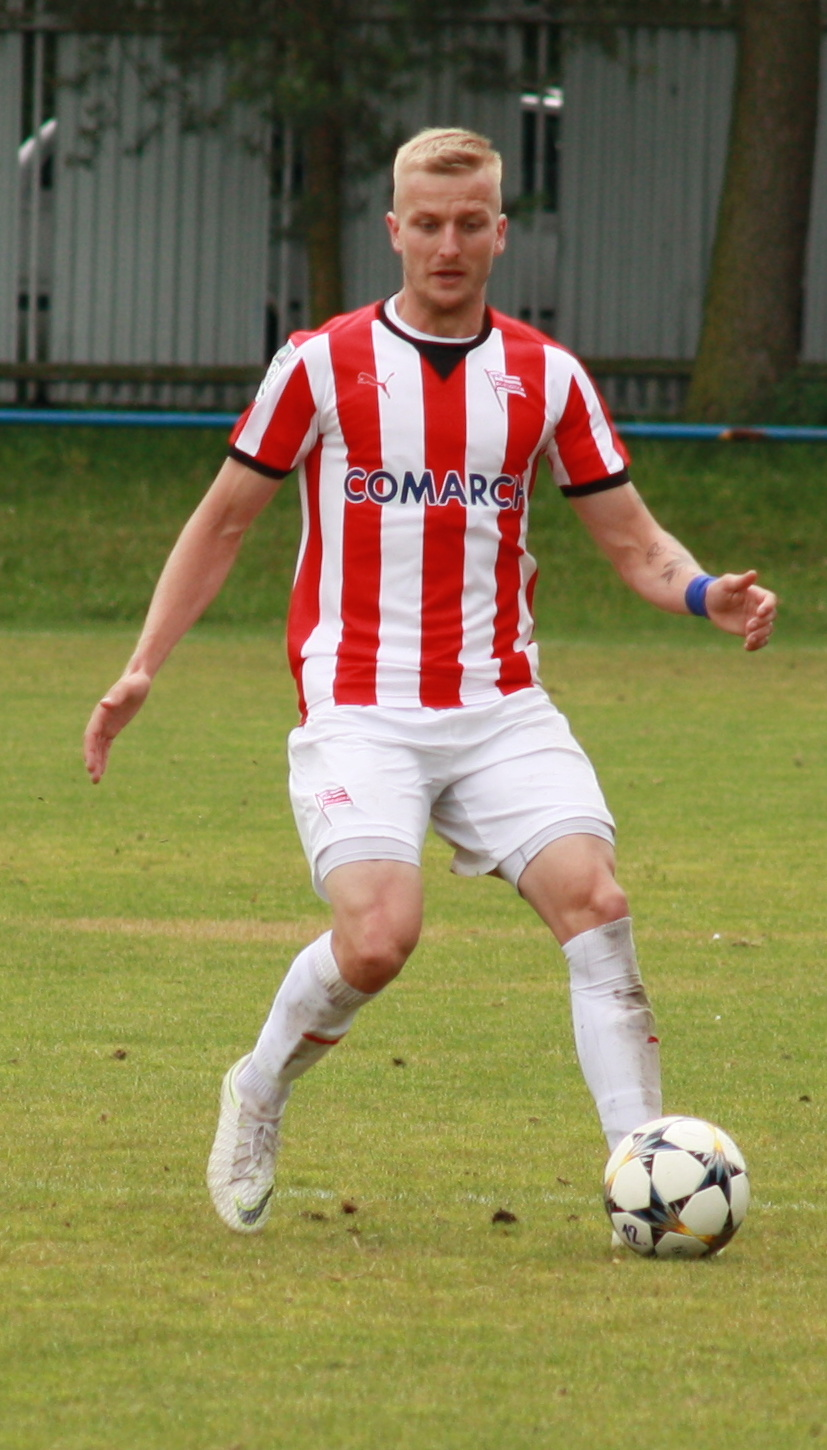 Michal Sipľak, Slovak footballer in team Cracovia during friendly match against MFK Karviná in Dětmarovice, 23rd June 2018